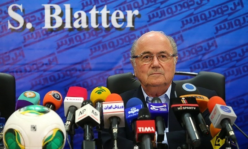 FIFA President Sepp Blatter in a press conference in a press conference in Tehran